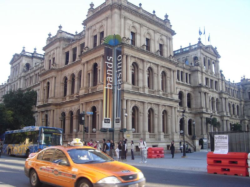 Brisbane Casino